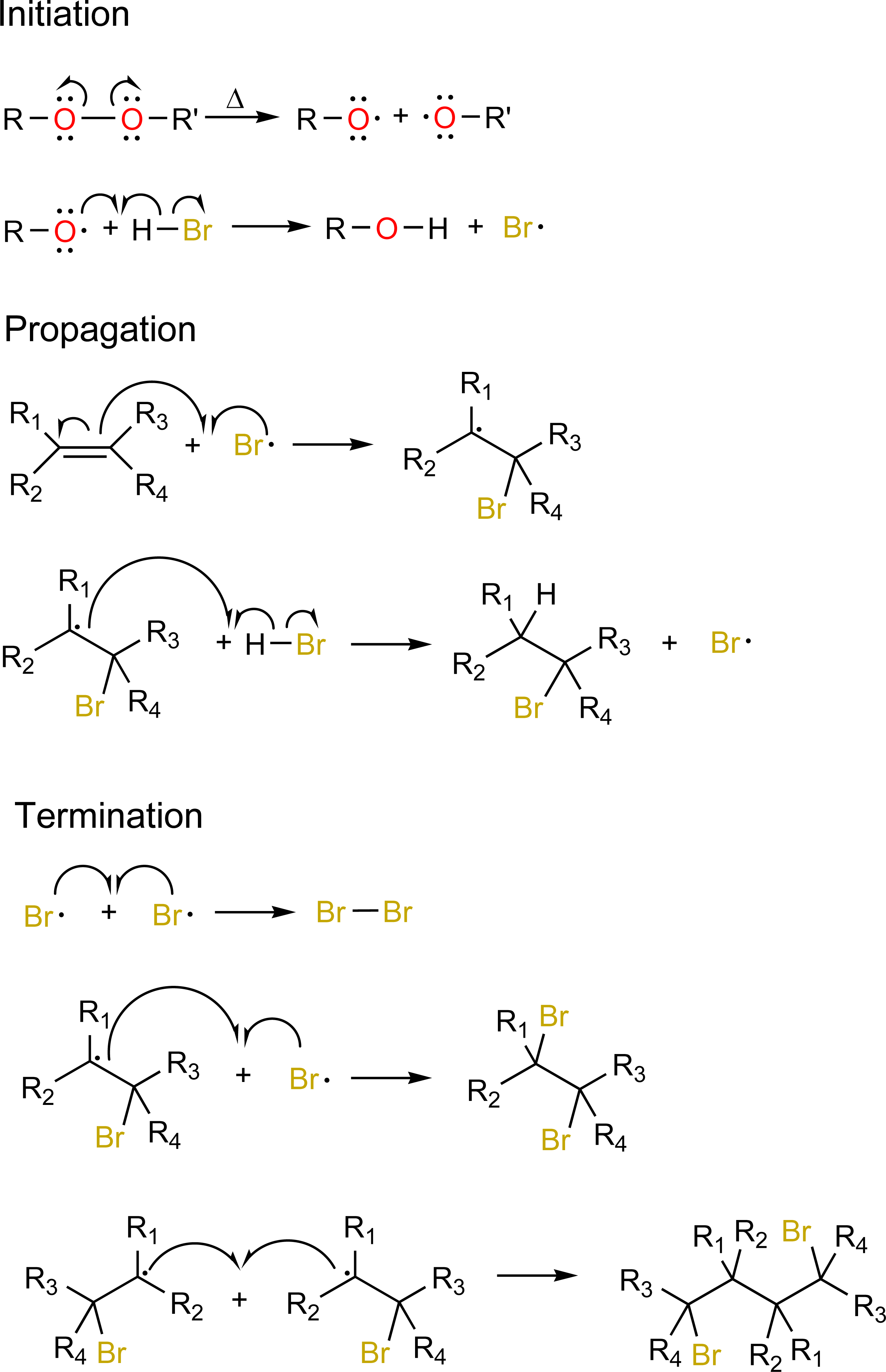 Radical addition of H-Br on alkenes, starting from peroxide